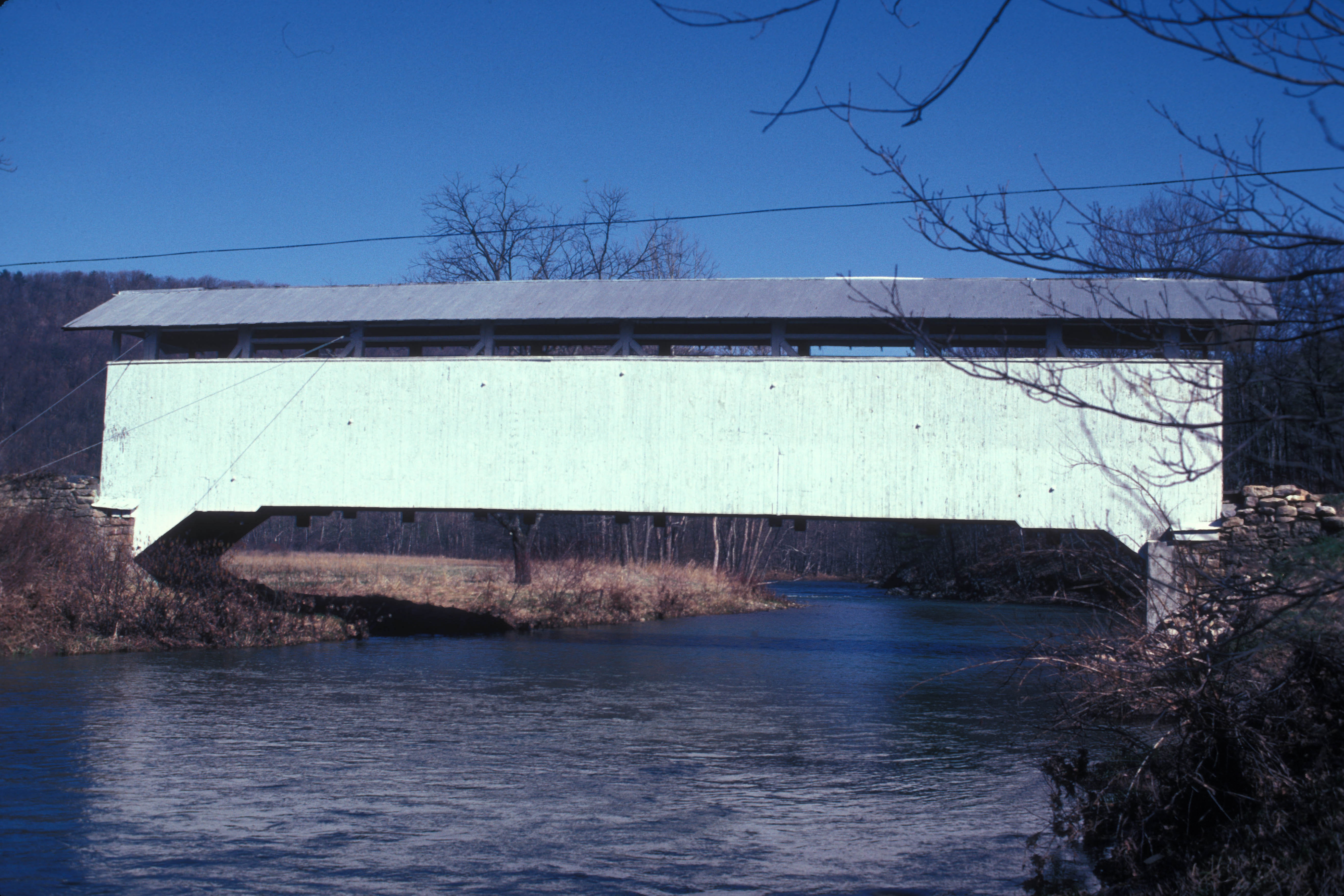 Hewitt Covered Bridge OVER TOWN CREEK in Southampton Township in Bedford County, Pennsylvania, USA; 80’ BURR; 1879